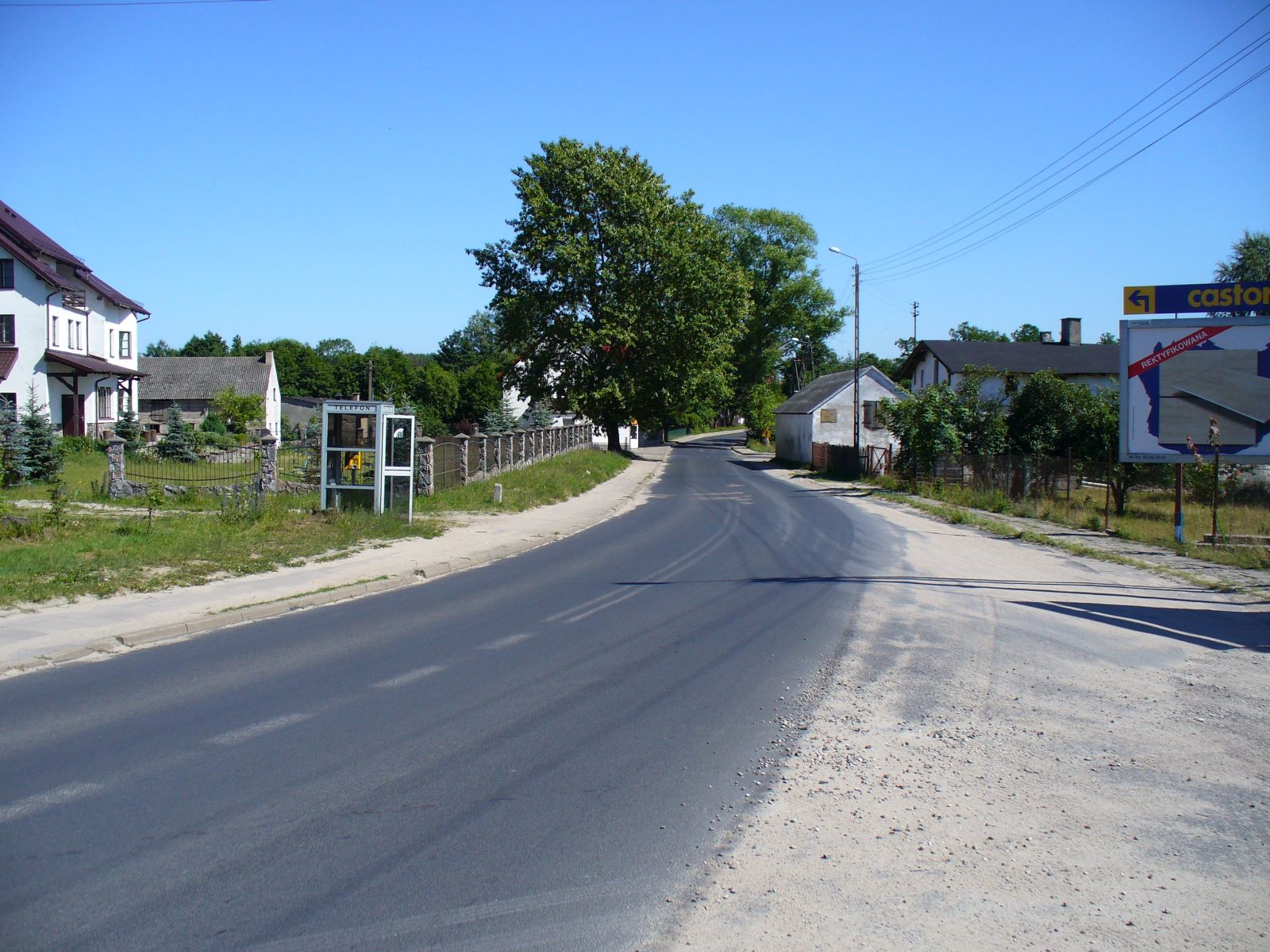 Village Koleczkowo, Poland